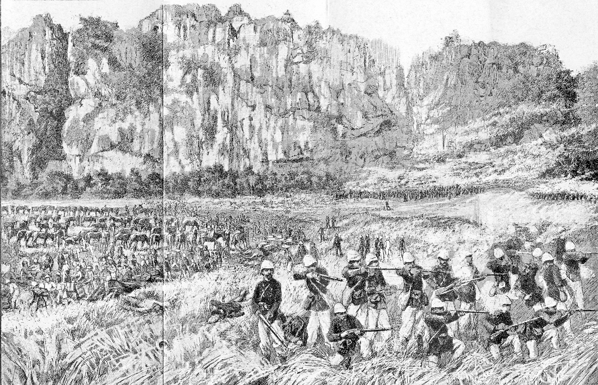 The Bac Le Ambush: French marine infantry deploy beneath the Nui Dong Nai cliffs, late afternoon, 23 June 1884